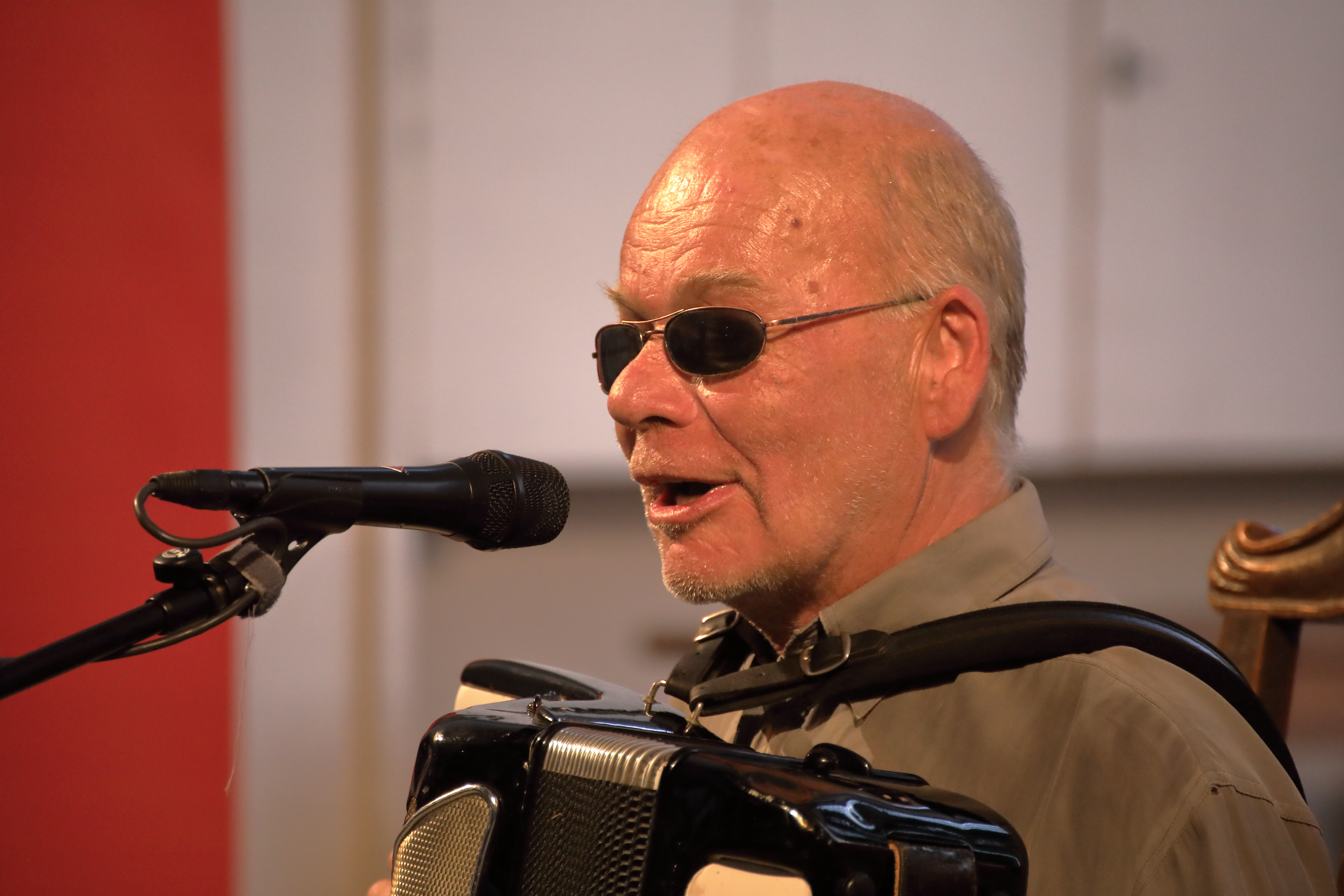 Accordeon player Otto Lechner from Austria performing his Franz-Kafka-Program in the town church of Rudolstadt, 2019.